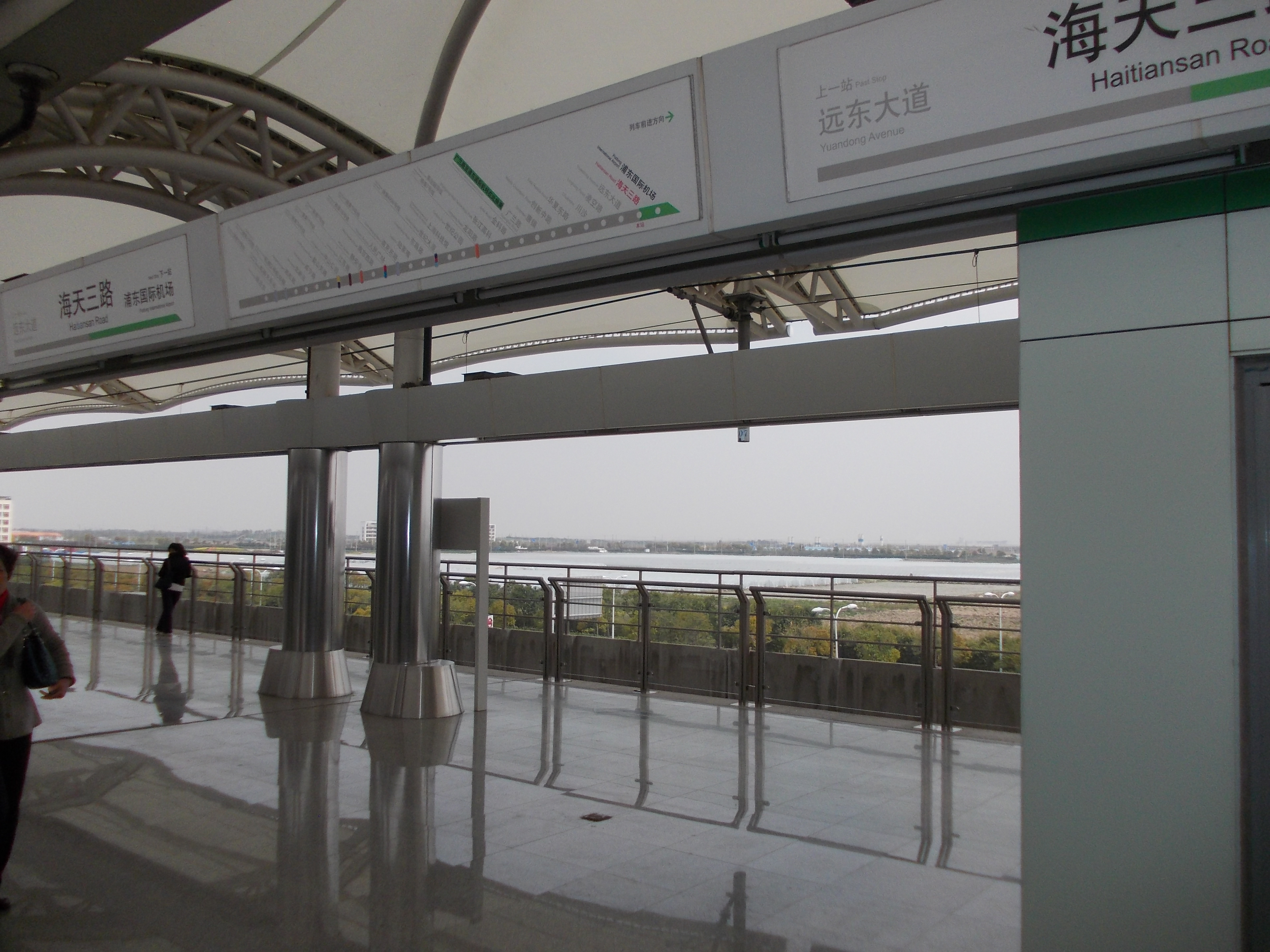 Shanghai Metro - Line 2 - Haitiansan Road